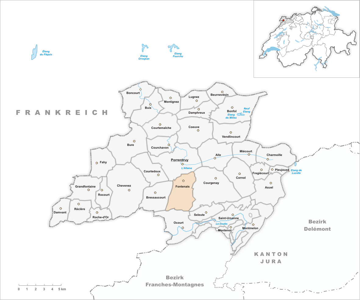 Municipality Fontenais Artist: Tschubby